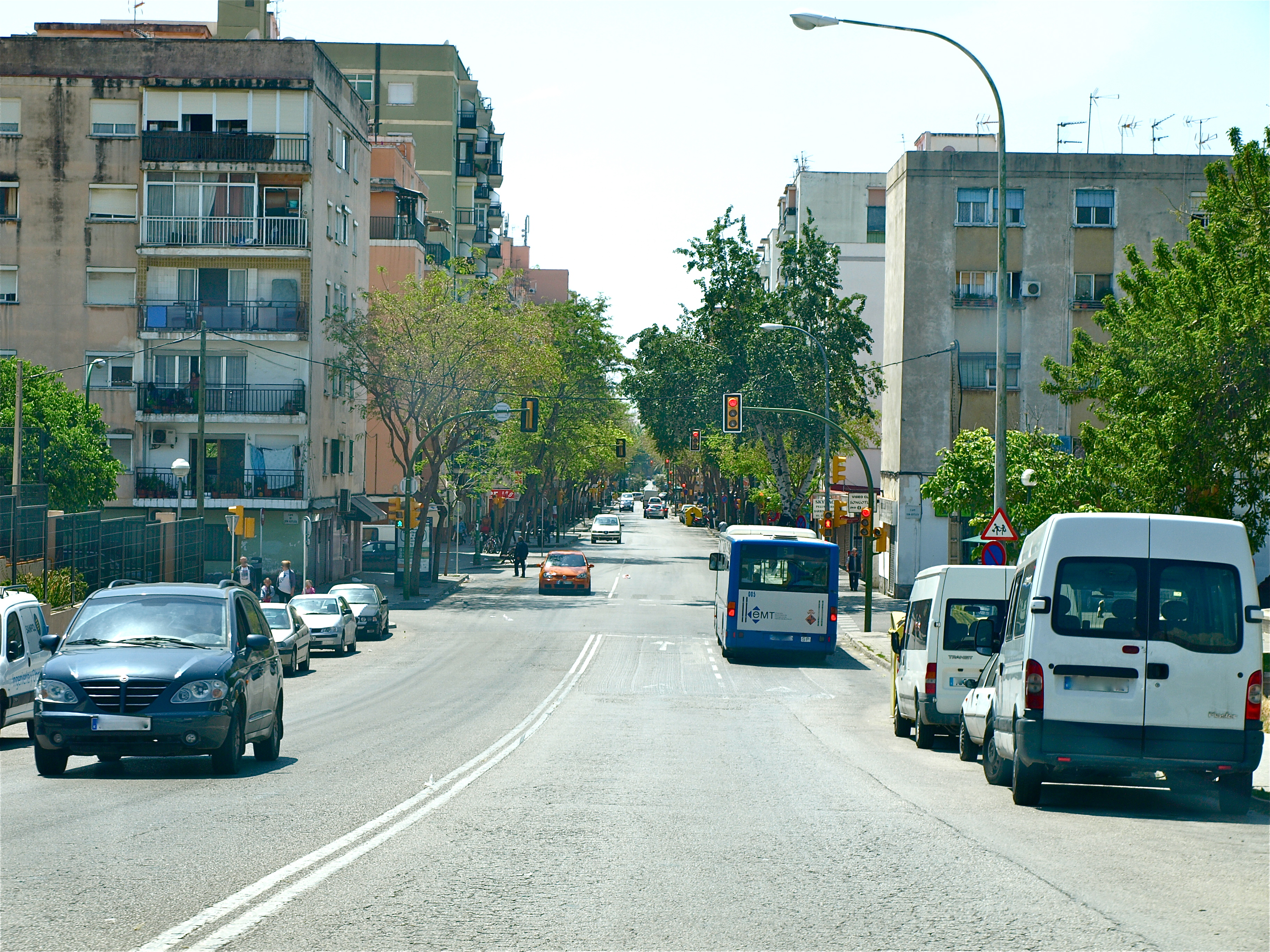 Son Gotleu bridge, Indalecio Prieto street